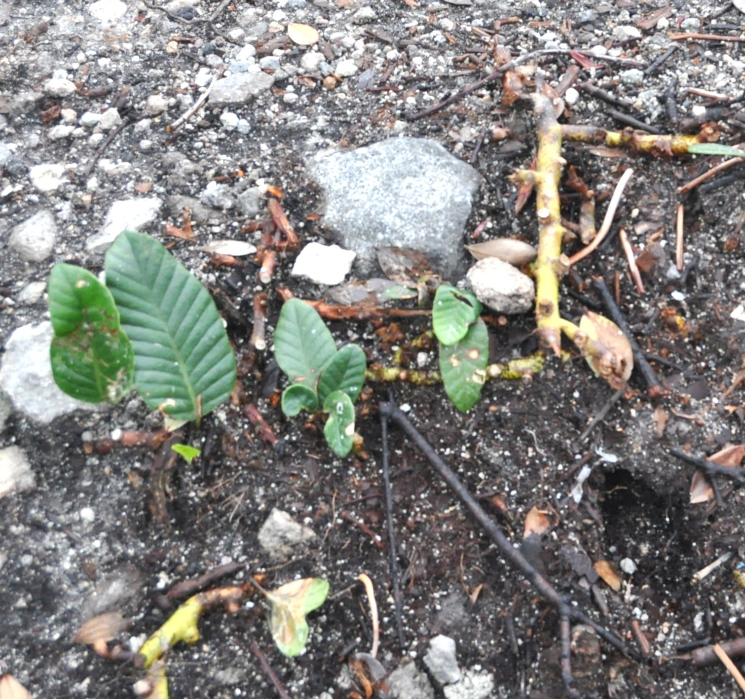 Selliguea feei grows under Vaccinium (cantigi) tree. Kawah Putih (White Crater), Mt. Patuha, Ciwidey, Bandung, West Java. Elev. +2090 m.